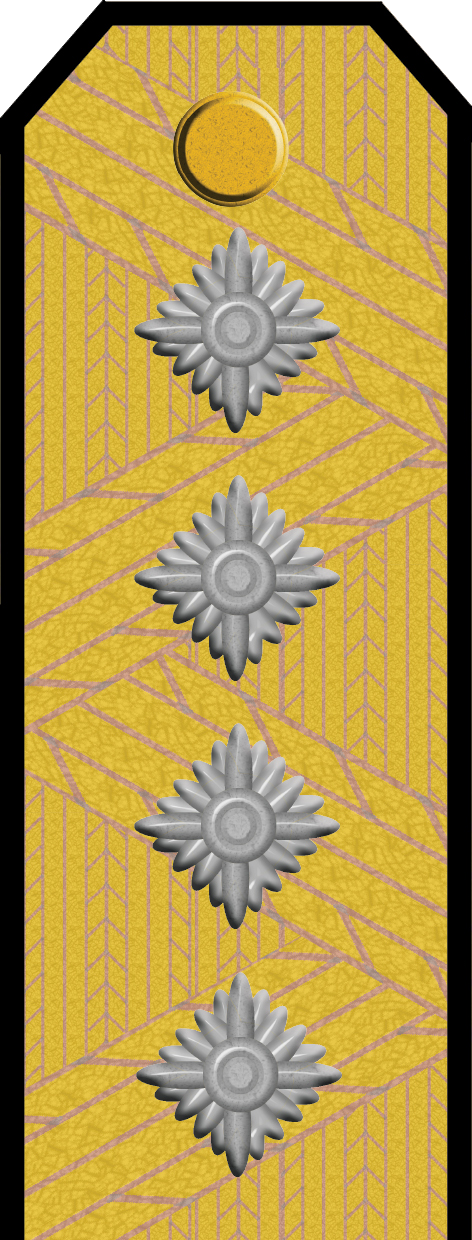 Bulgarian army Colonel rank General insignia